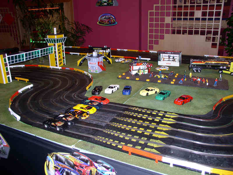 Original file from eXeL Services website, The Owner agrees to licence this image under the following